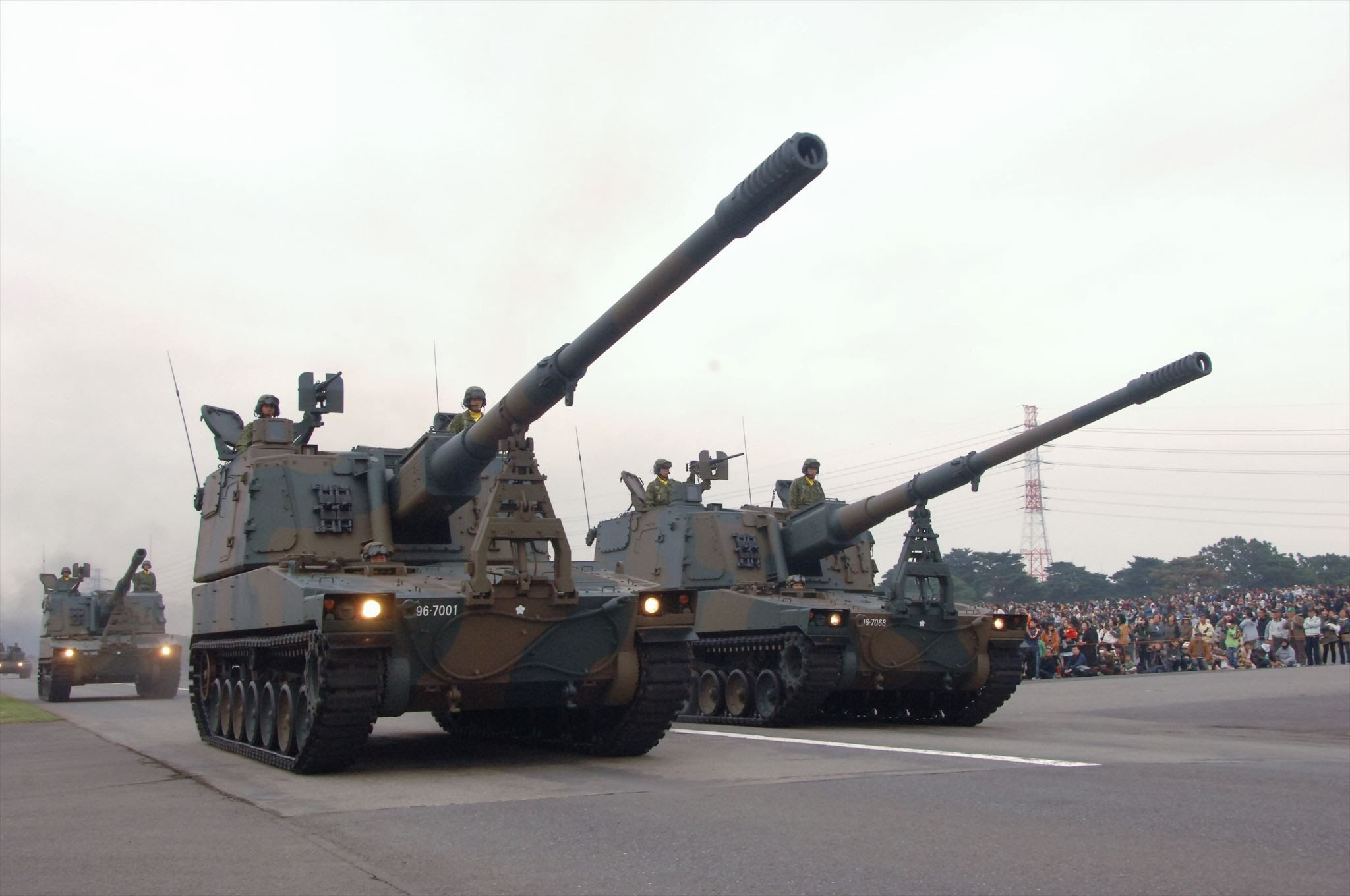 Title 13_13_037_R.JPG Album 自衛隊記念日 観閲式(Parade of Self-Defense Force) 平成22年度自衛隊記念日 観閲式(Parade of Self-Defense Force)